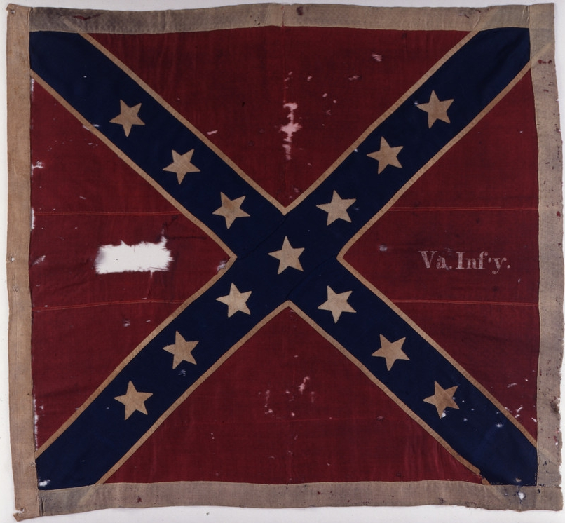 19th Virginia Infantry Flag, lost during Pickett's Charge, on the third day of the Battle of Gettysburg.